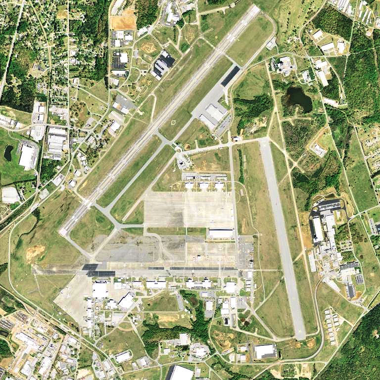 USGS digital orthophoto of Donaldson Center Airport, formerly Donaldson Air Force Base, in Greenville, South Carolina, United States